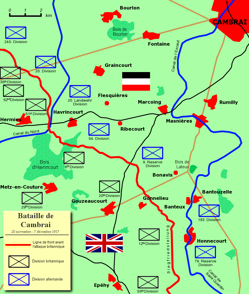 Battle of Cambrai (1917) : forces involved.